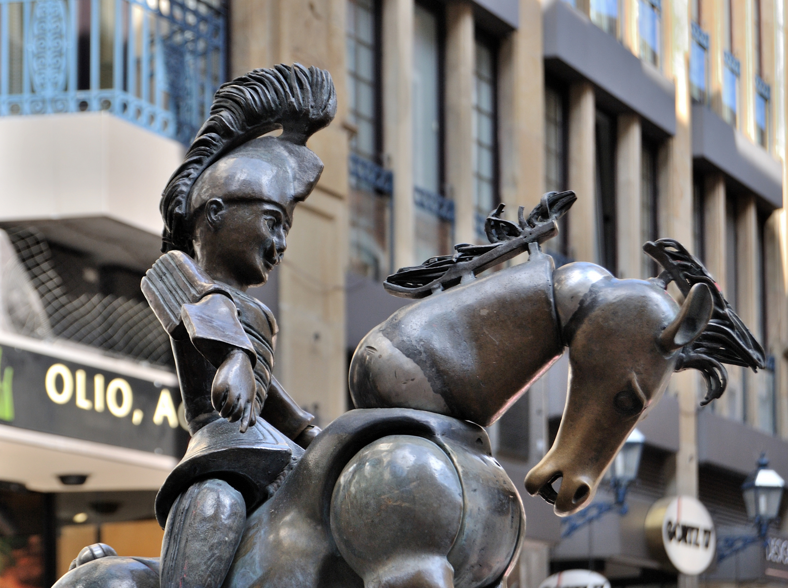 Aachen (North Rhine-Westphalia, Germany) – dolls fountain – horse and riderThis photograph was taken with a Nikon D3000